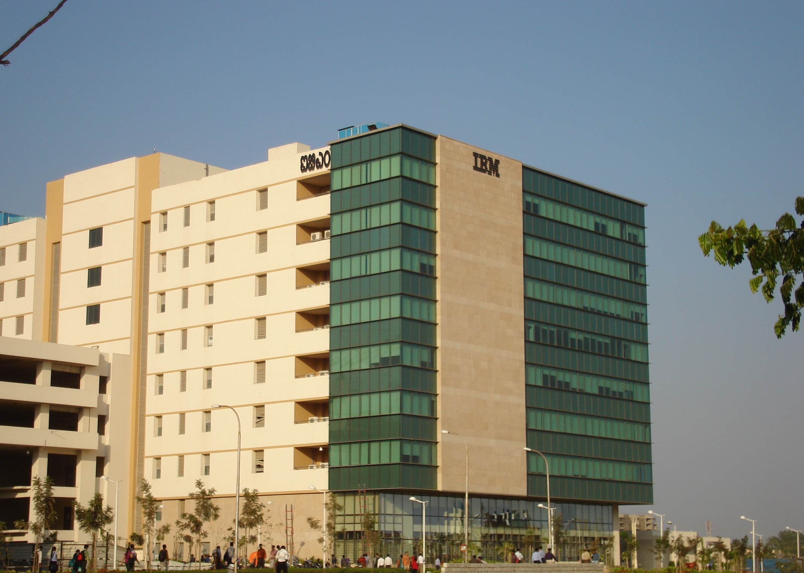 Photo of IBM office in Manyata Tech Park in Bangalore.